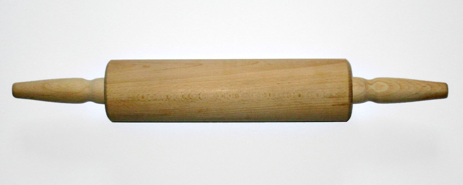 Nudelholz rolling pin